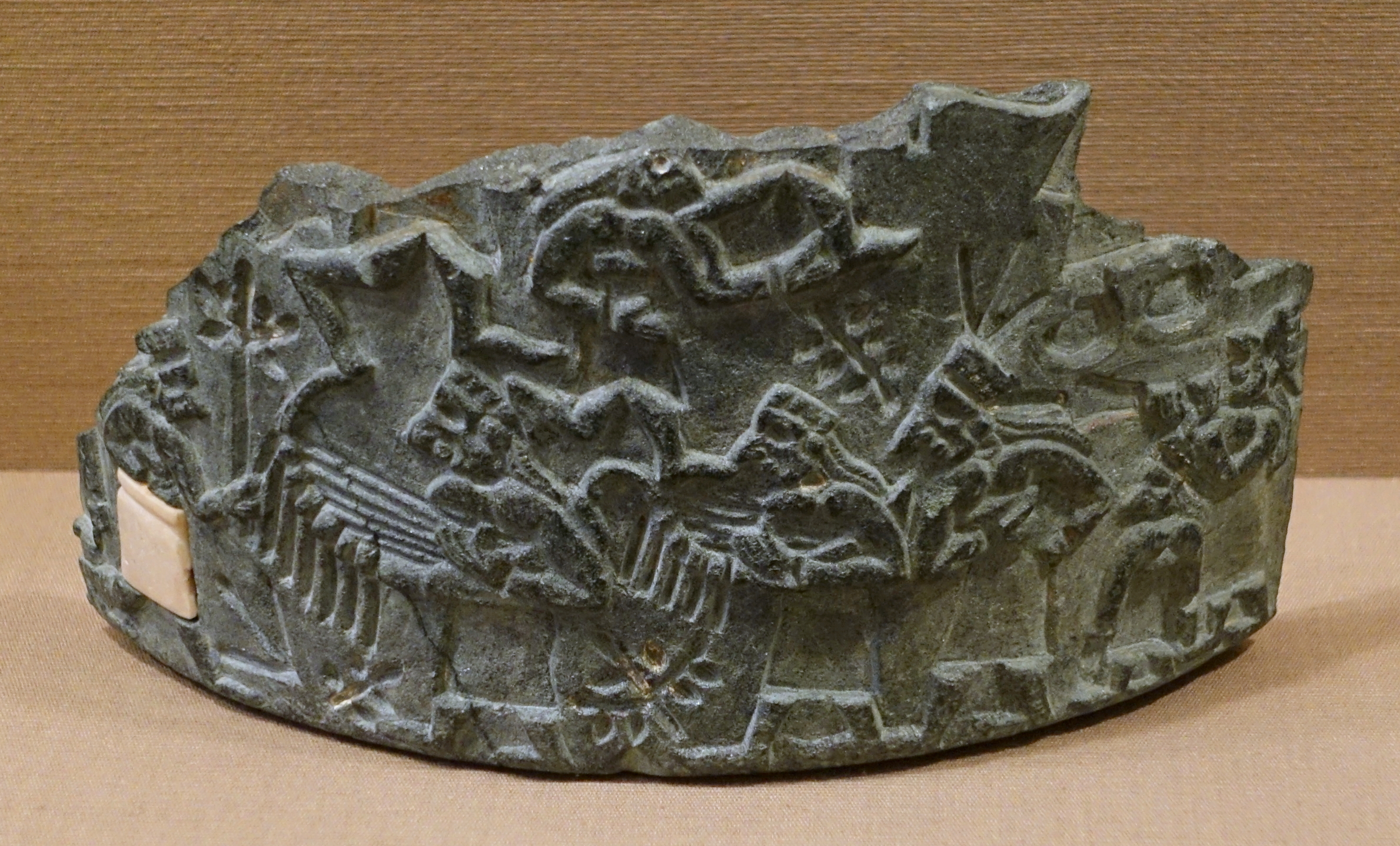 Exhibit in the Oriental Institute Museum, University of Chicago, Chicago, Illinois, USA. This work is old enough so that it is in the public domain.